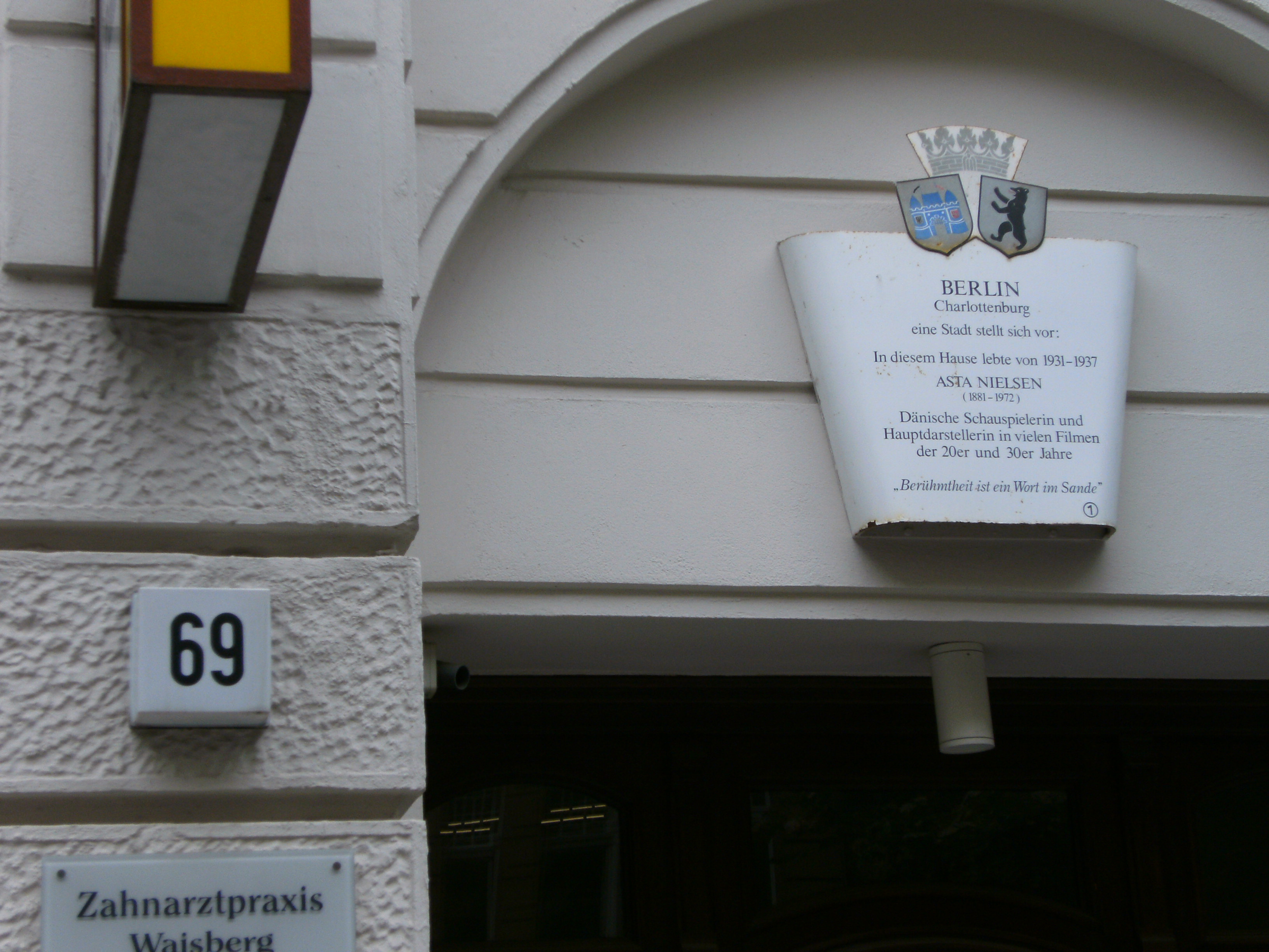 Plaque for Asta Nielsen, a Danish actress, in Berlin-Charlottenburg, Fasanenstraße 69.